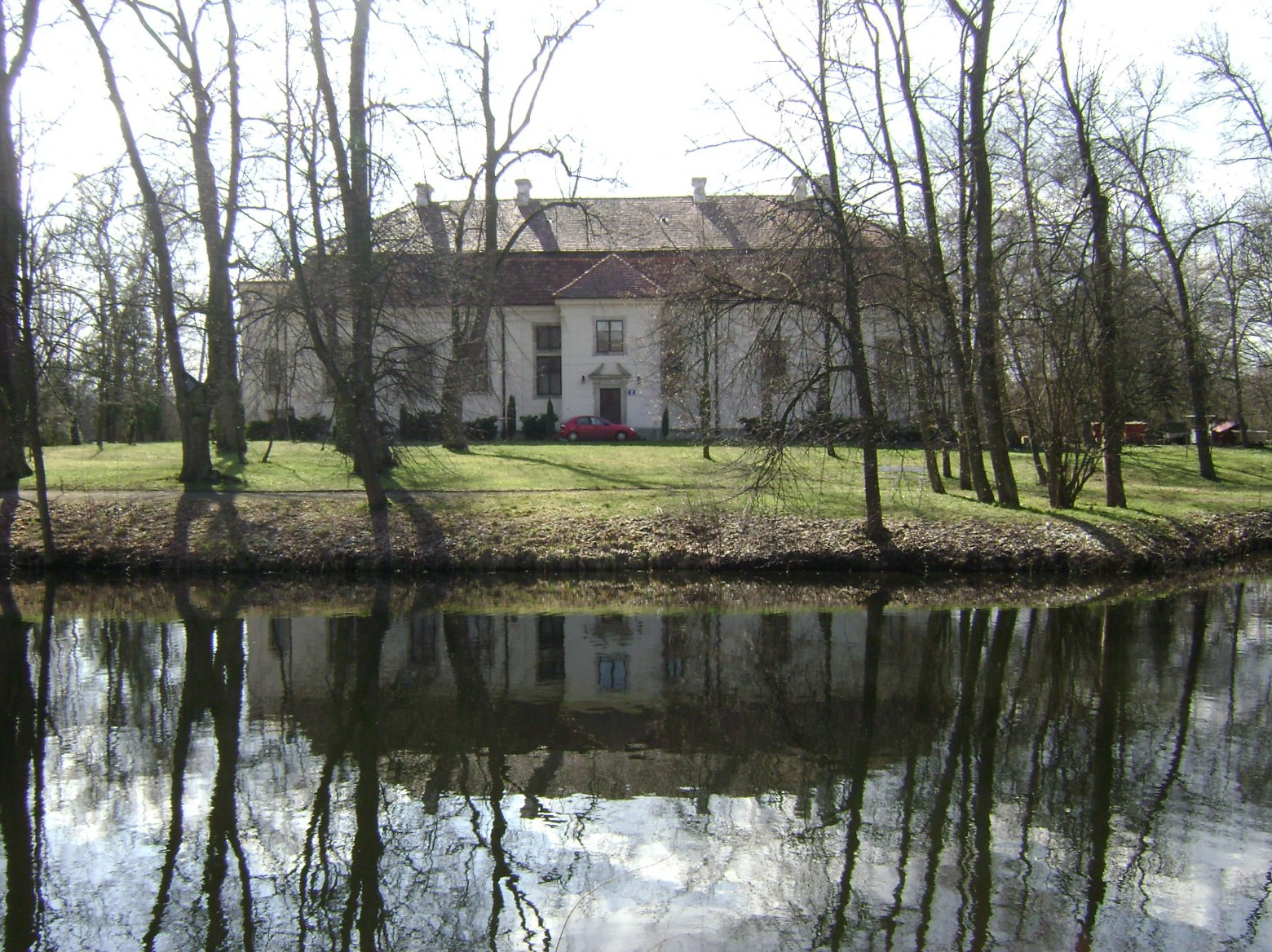 Poland. Gmina Konstancin-Jeziorna. Obory Village